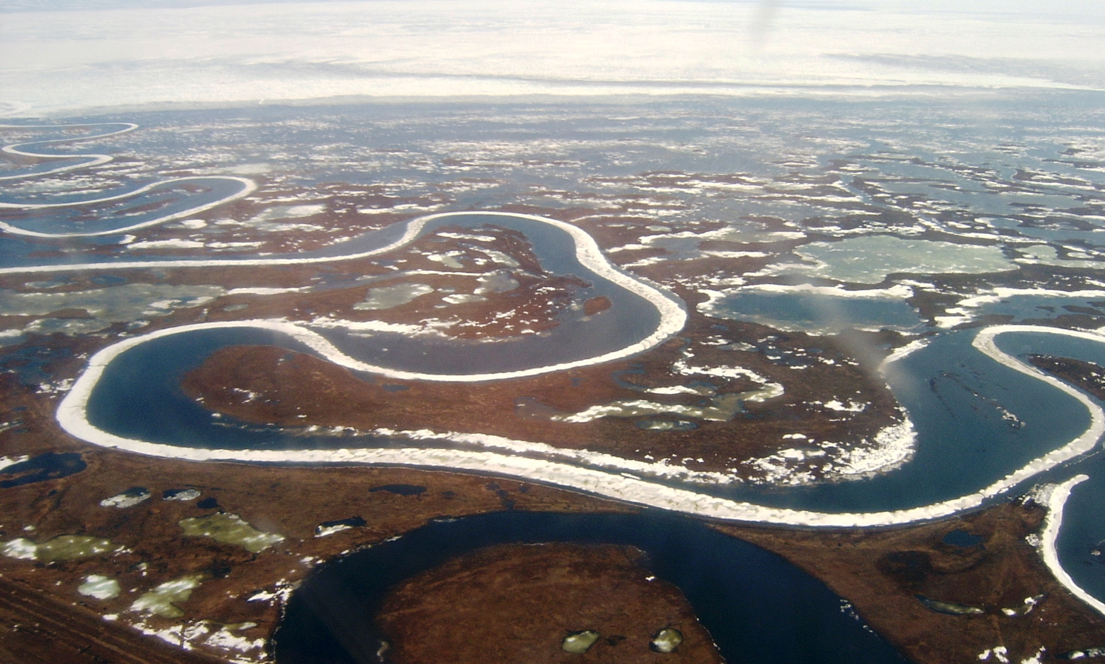 Tretya River from helicopter